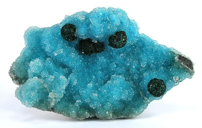 Malachite, Quartz, Chrysocolla Locality: Globe, Globe Hills, Globe Hills District, Globe-Miami District, Gila County, Arizona, USA (Locality at ) Size: 8.0 x 4.8 x 2.6 cm. A gorgeous specimen with an antique Ward's Science Establishment label dating it to pre-WWI in the early 1900s. Ward's was an active buyer at the time, but an even older (unidentified, calligraphy) label glued to the back indicates this may date to the earliest days of copper camp mining in Arizona. However, the pedigree aside, it’s just an incredible specimen with eye appeal due to the startling contrast of the (8mm) primary malachite crystals to the blue quartz underneath. It was, in Hauck's collection, a stunning blue quartz representative...but it’s more than a mere quartz in my book!